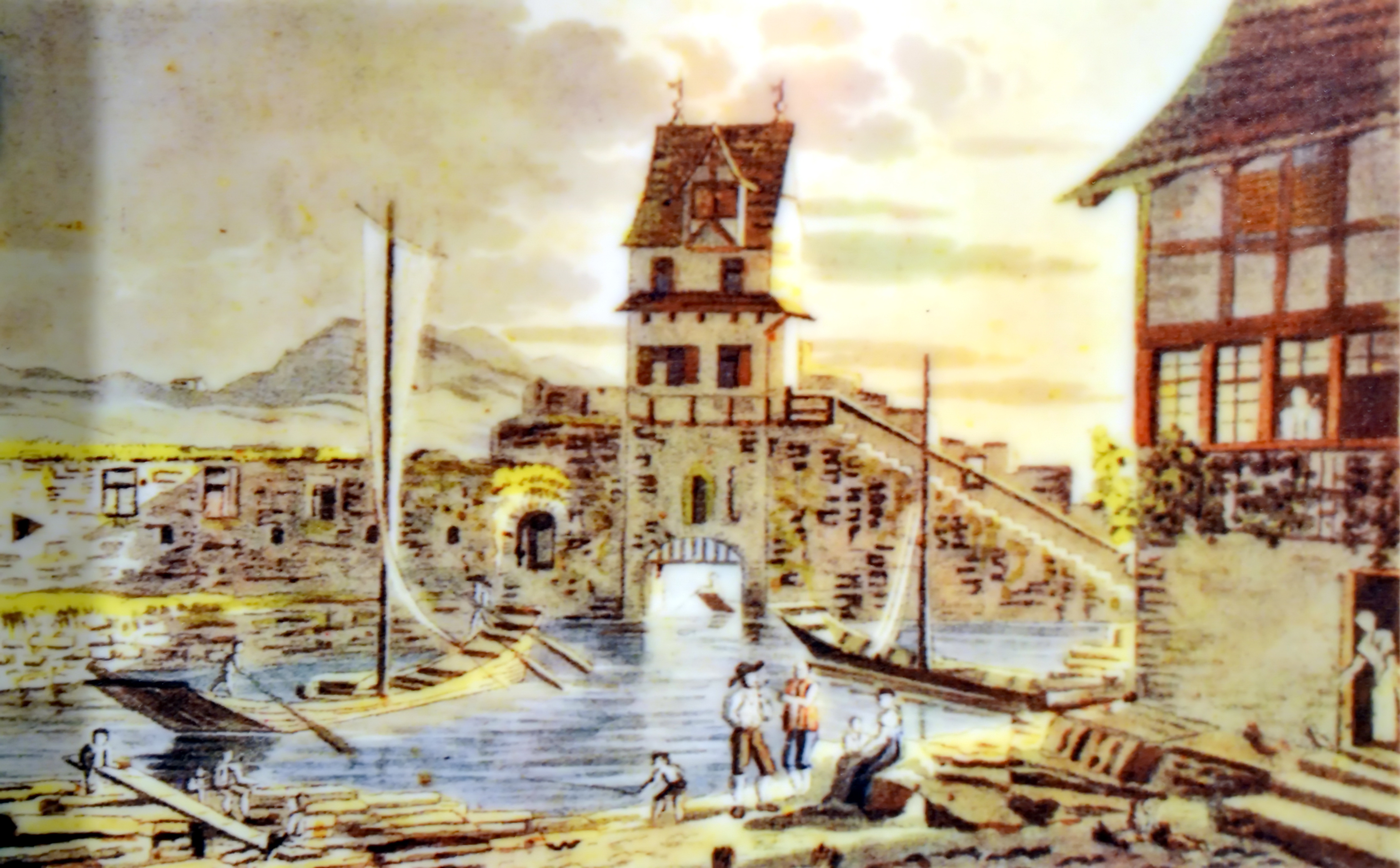 Rapperswil (SG) : Inner harbour and its portal to the Lake Zürich, as of today the so-called Fischmarktplatz.